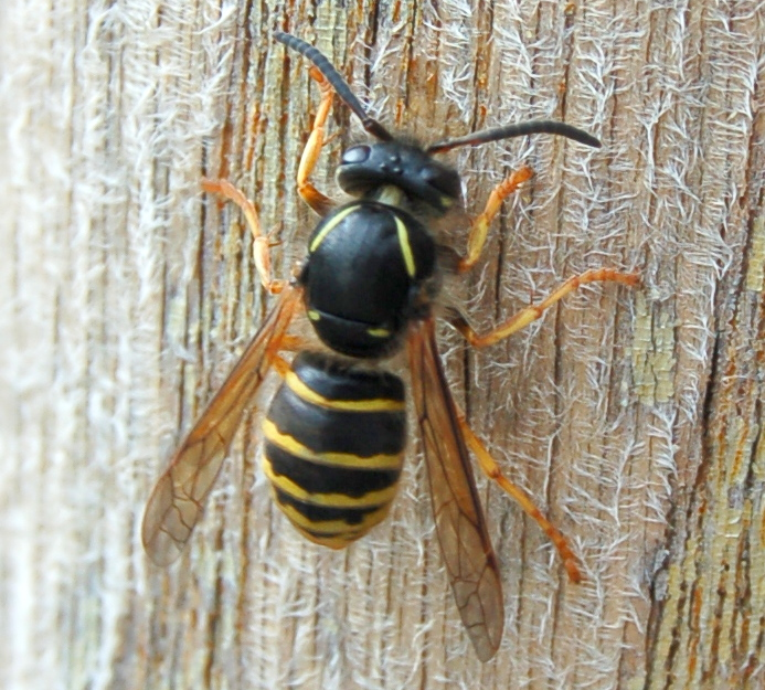 Dolichovespula norvegicoides (Northern Aerial Yellowjacket - worker). Photo taken in Larvik, Norway.